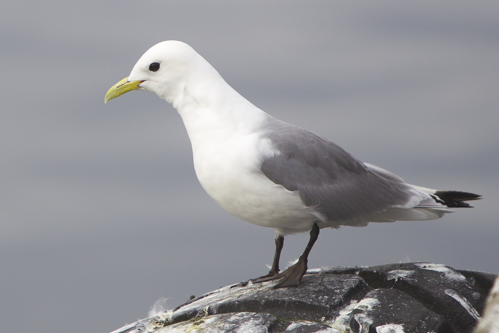 Adult black-legged kittiwake in Vardø, Norway